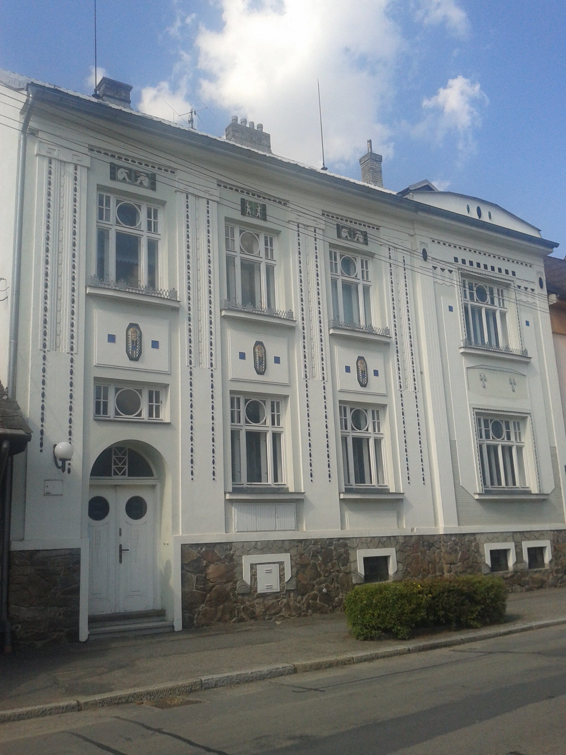 House No. 93